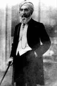 Mohammad Yaqub Khan, Emir of Afganistan (b.1849-d.1923)